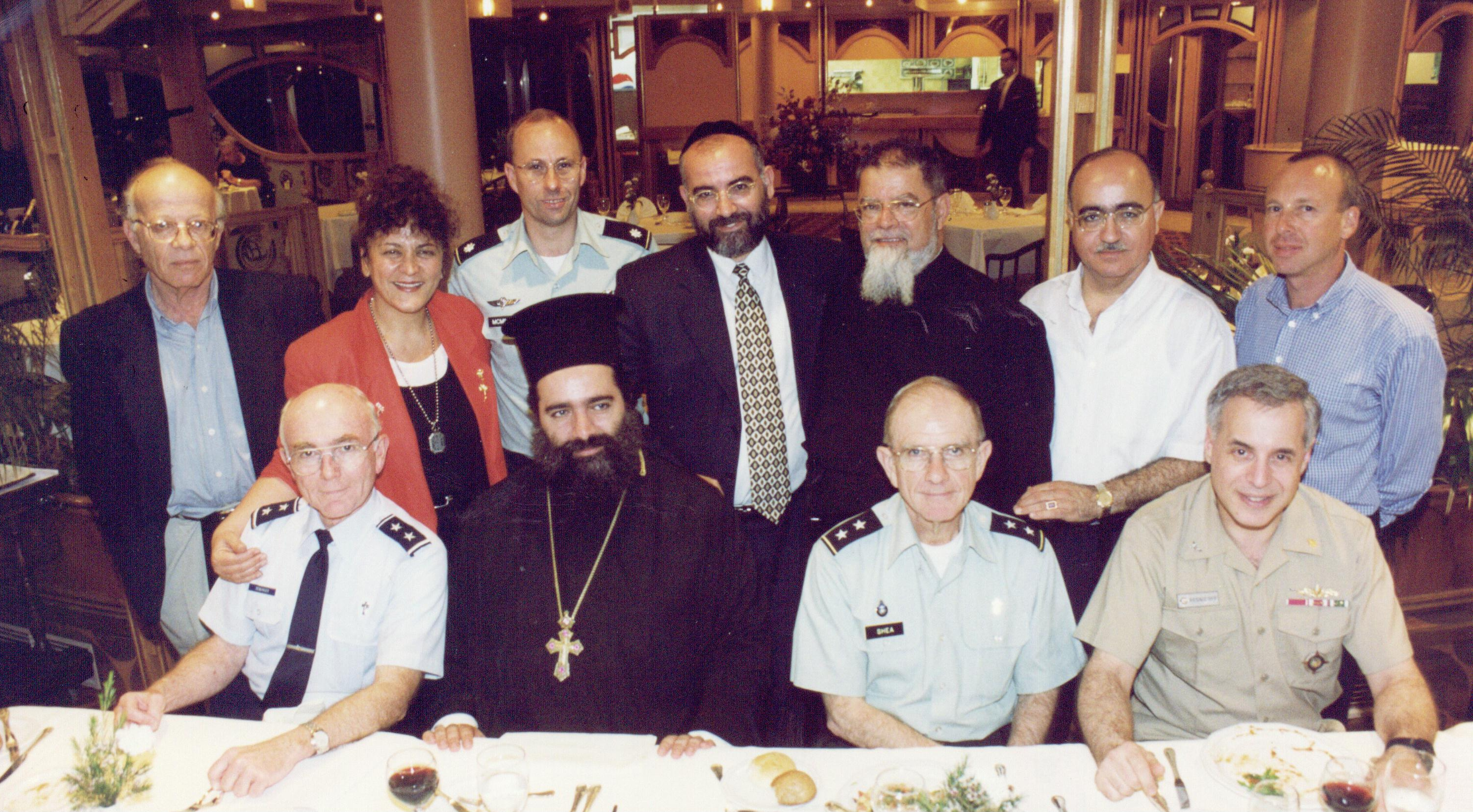 Gilla Gerzon (standing, second from left), Director of the Haifa USO, stands with a group of religious leaders from Jerusalem at a meeting with visiting U.S. Air Force Chief of Chaplains (seated, far left) Brigadier Major General William Dendinger, U.S. Army Chief of Chaplains (seated, second from right) Brigadier Major General Donald Shea, and Chaplain (Rabbi) Arnold Resnicoff (seated, far right), Jewish Chaplain for the U.S. Sixth Fleet. Photo taken during the first visit of the two U.S. Chiefs of Chaplains to Israel,May 1999. (The third U.S. Chief of Chaplains -- Chief of Chaplains for the U.S. Navy Rear Admiral Byron Holderby--made his first visit on a separate trip, August 1998.)